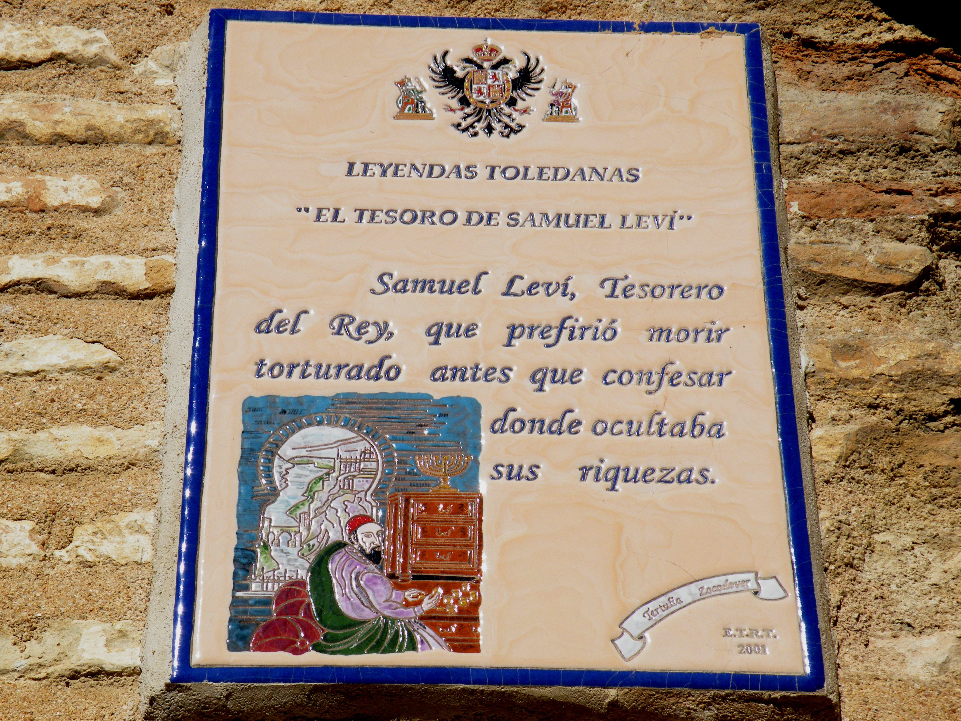 In memory of Samuel ha-Levi